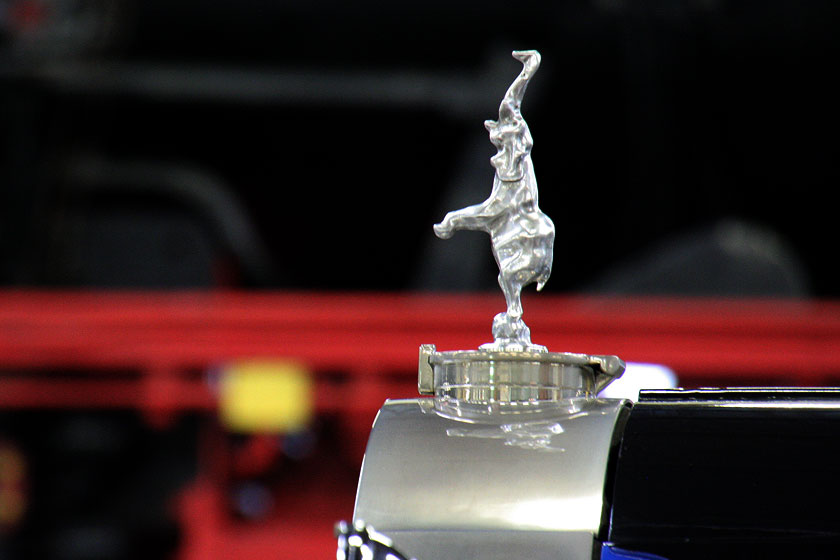 On a break of a classic car rallye we visited the Museum Sinsheim, Germany Very rare car - only seven were built - built for royalties - but no car was sold.